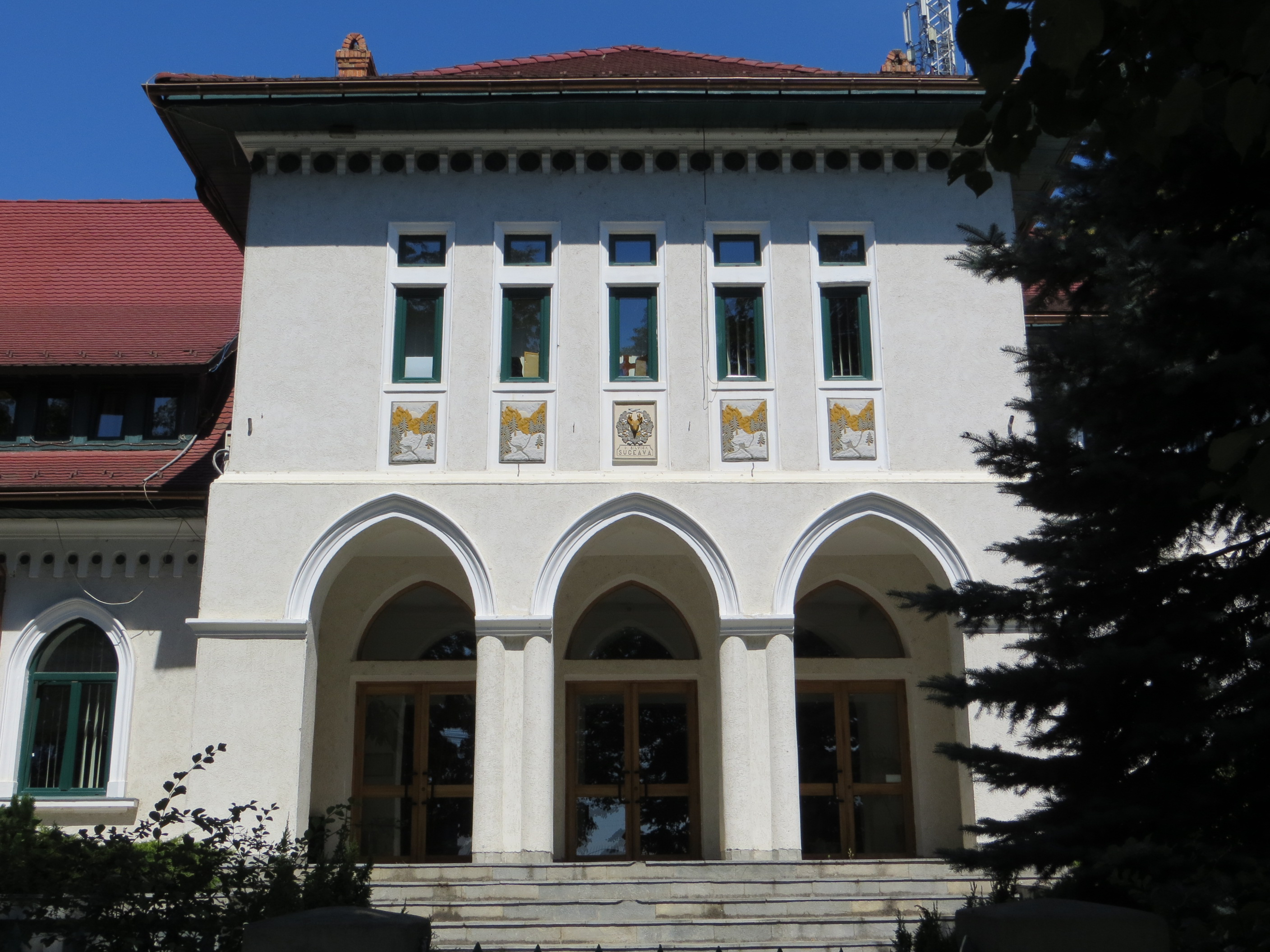 The Forestry Department in Suceava.